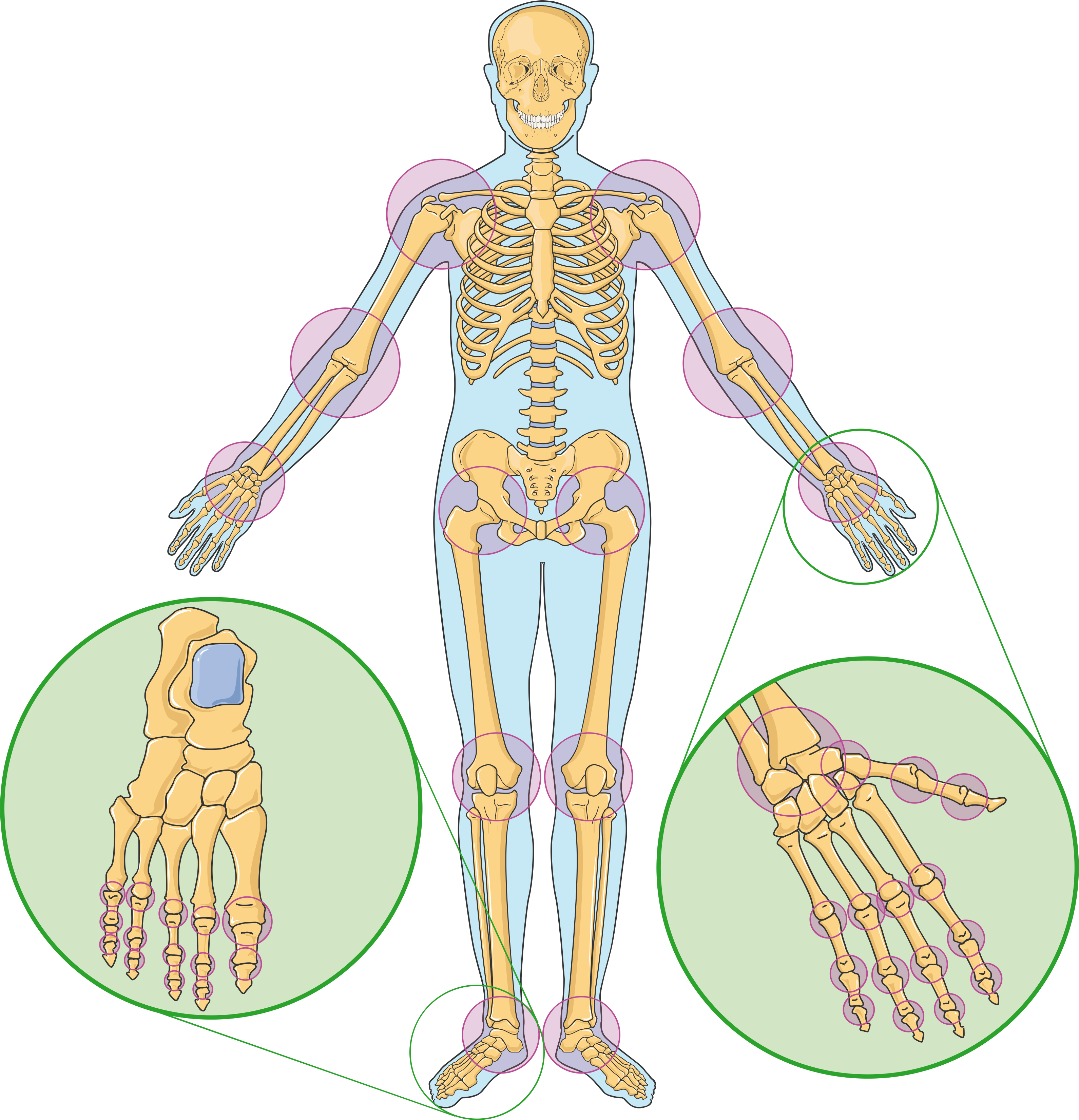 Skeleton and bones - Joints